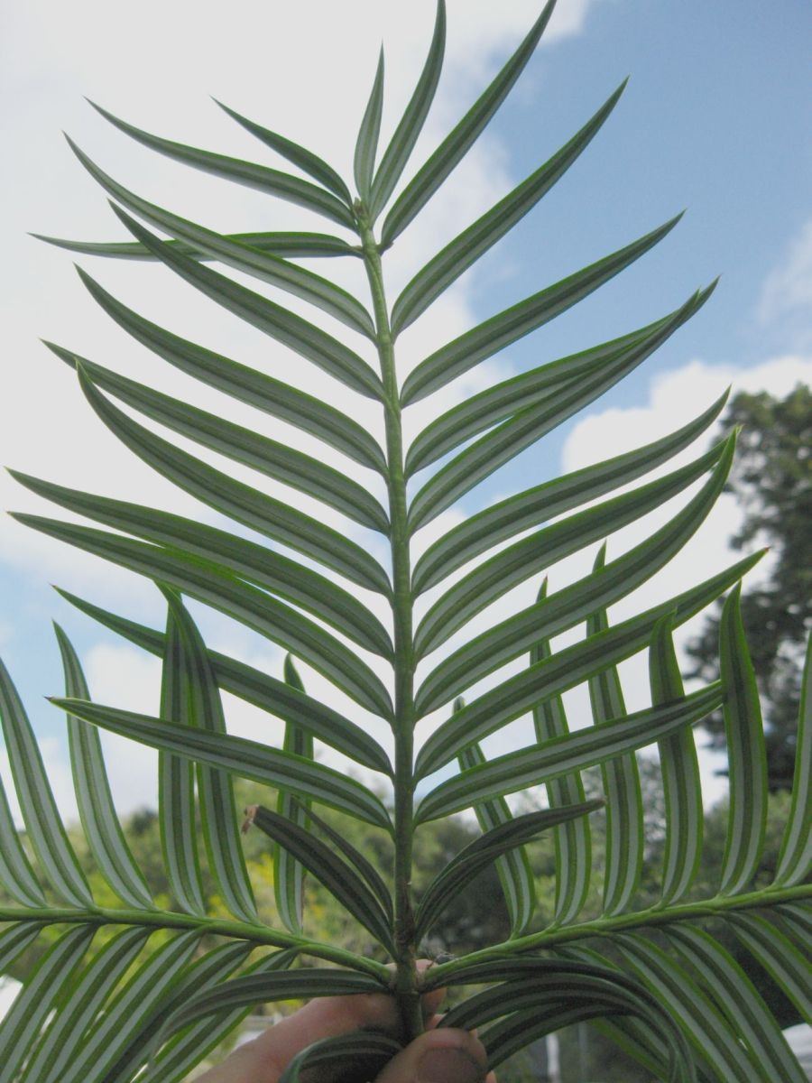 Amentotaxus formosana, Strybing Arboretum, San Francisco